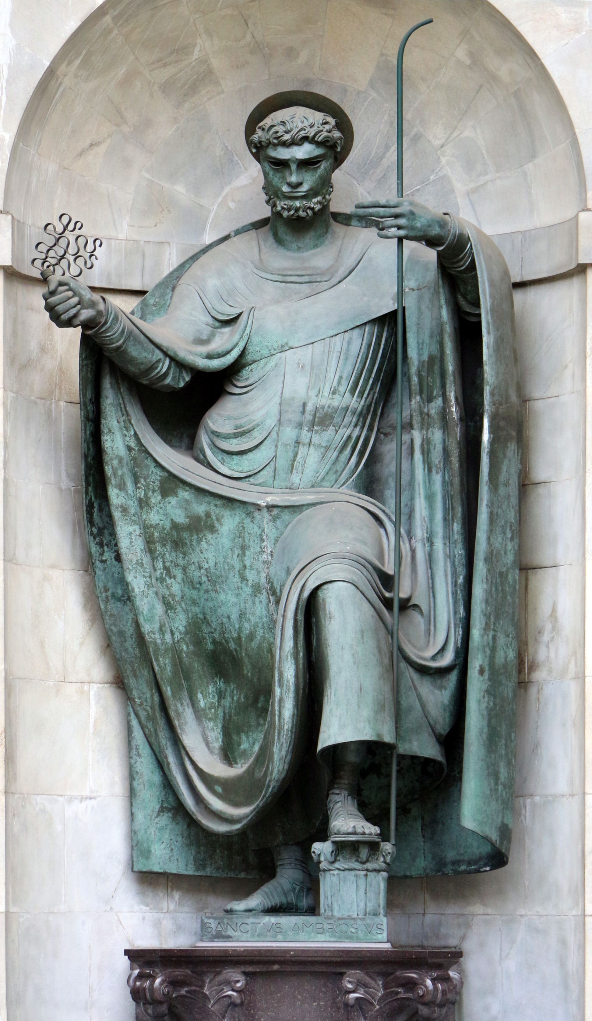 Tempio della Vittoria (Milan)